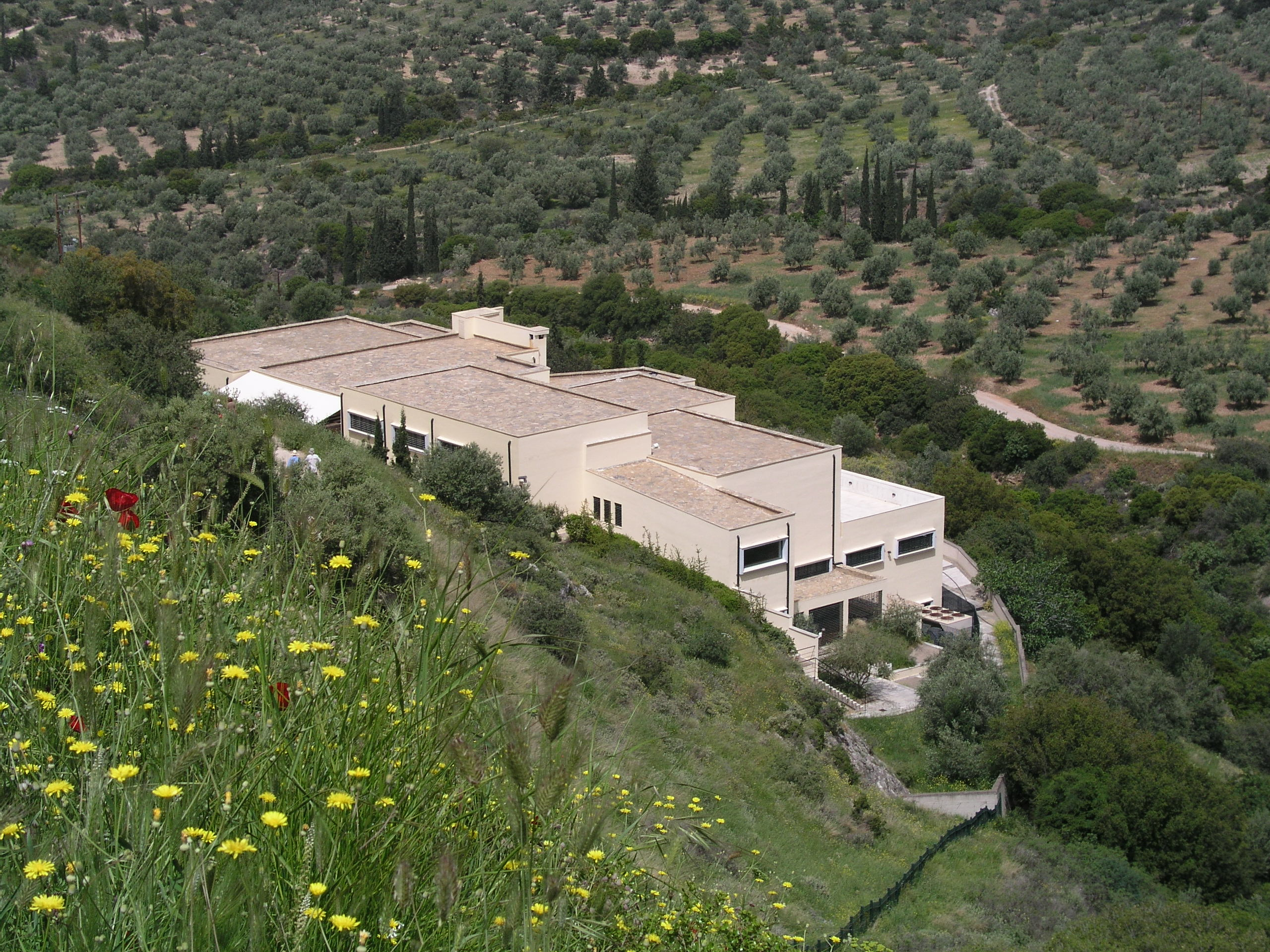 new museum in Mykene